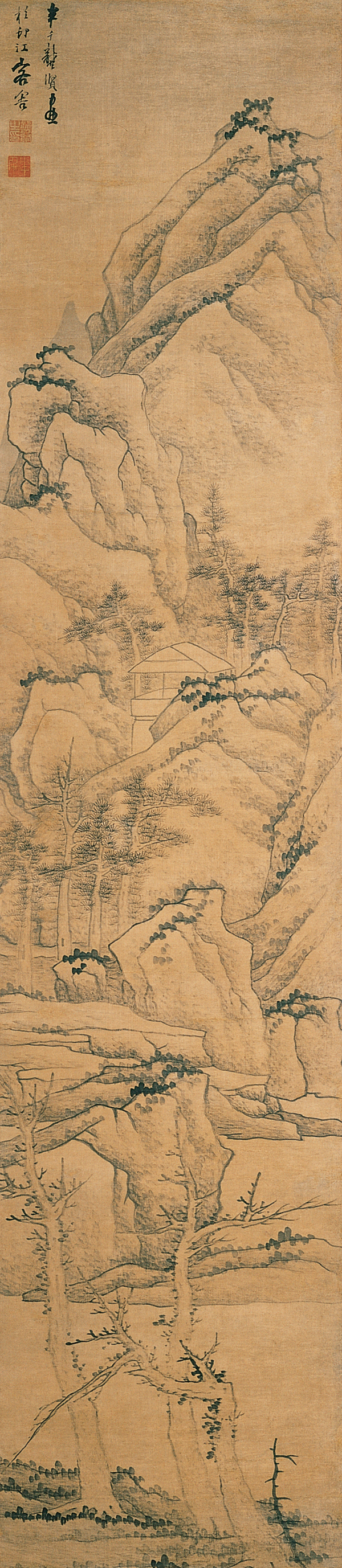 Landscape, c. 1650, China, Qing dynasty, ink on silk painting by Gong Xian, Kimbell Art Museum